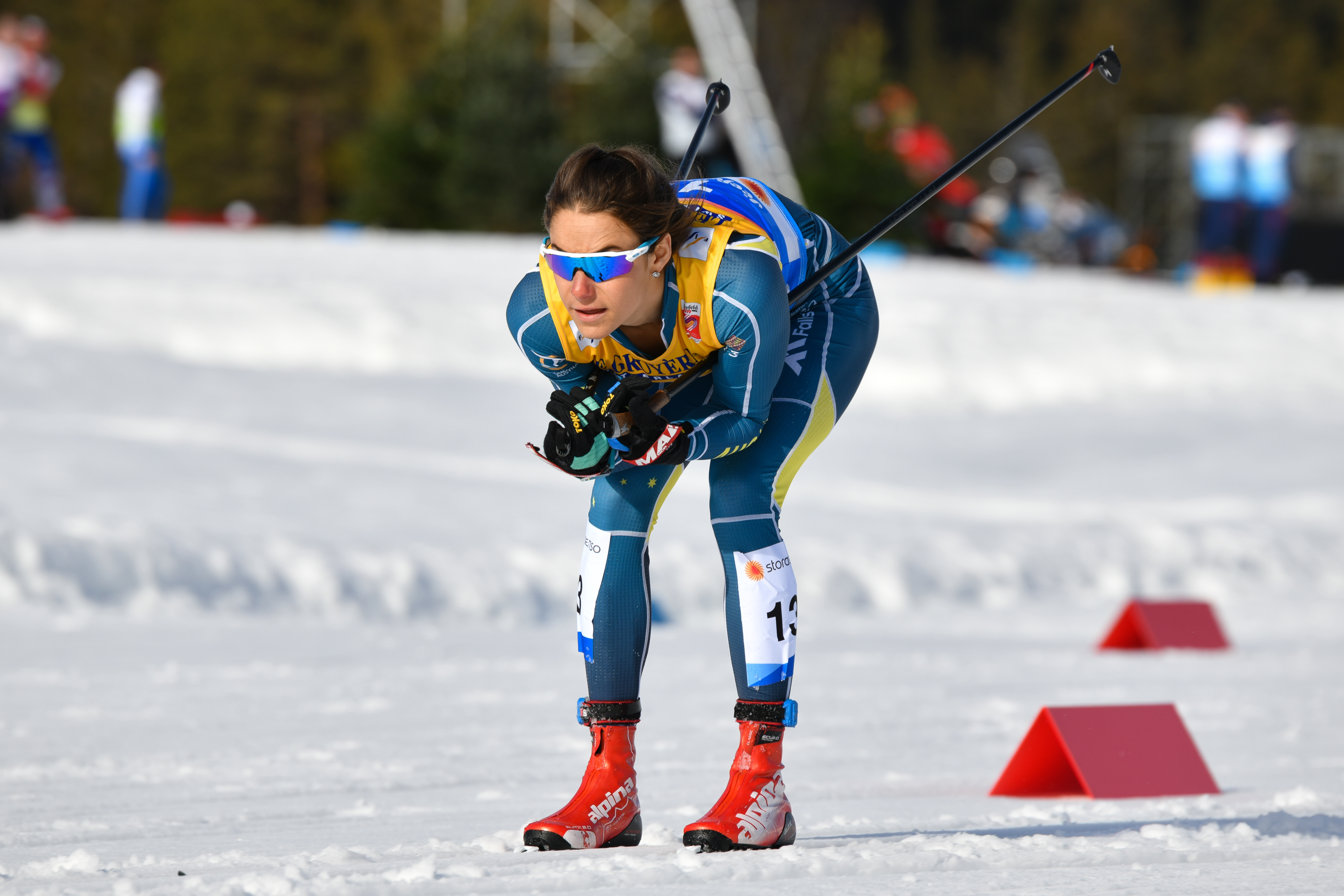 FIS Nordic Wolrd Ski Championships Seefeld 2019 - Ladies Cross Country 10km. Picture shows Jessica Yeaton (AUS).